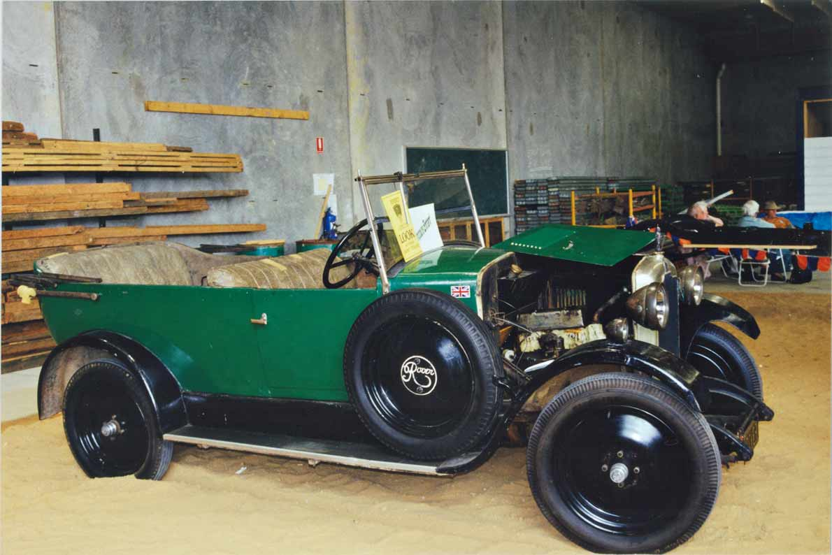 1925 Rover 9 tourer interior Rover Car Club Australia Holmesglen